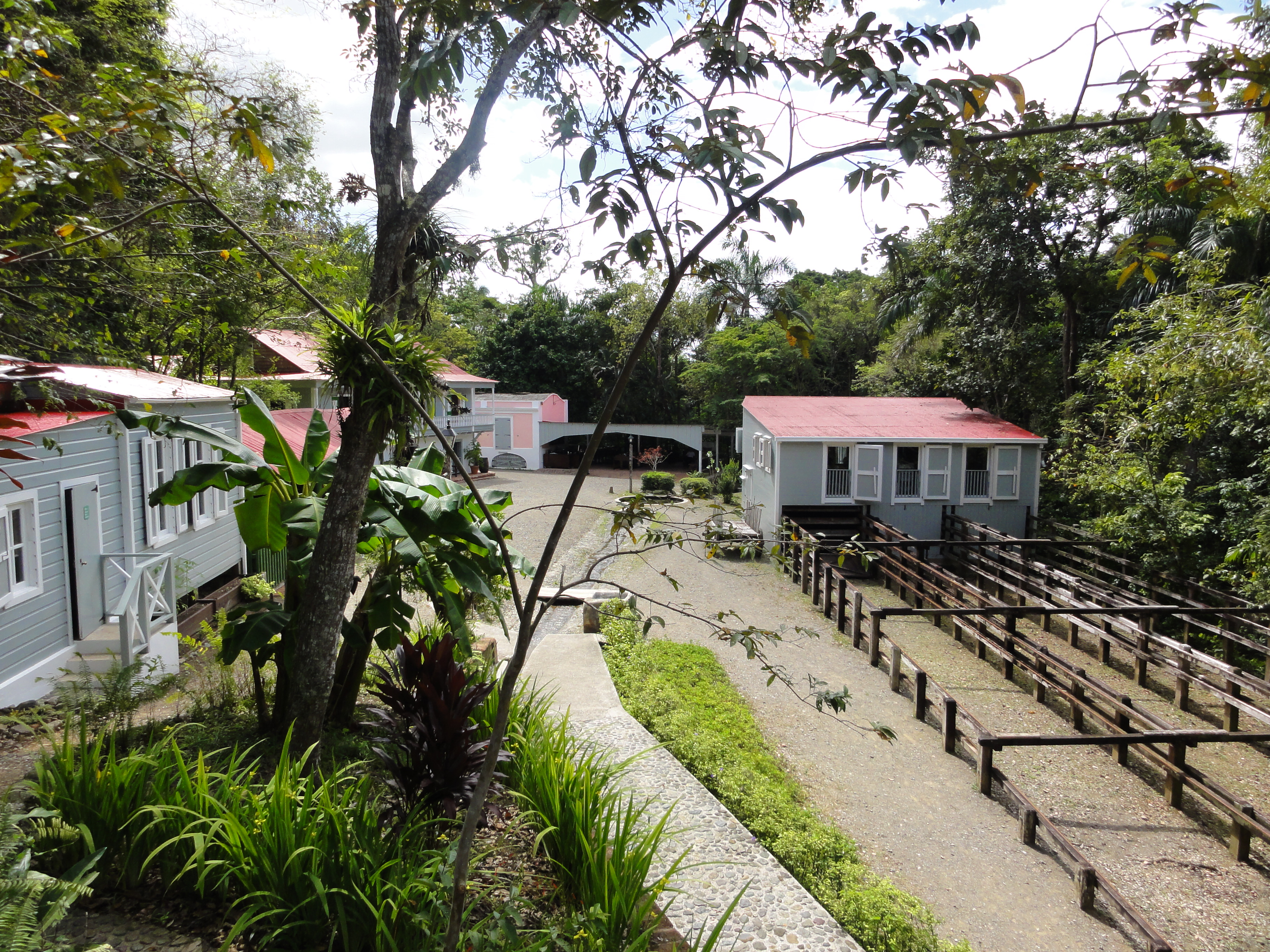 Complejo Museo Hacienda Buena Vista, mirando al sur, desde la Depulpadora de Cafe, en Bo. Magueyes, Ponce, PR (DSC03604)